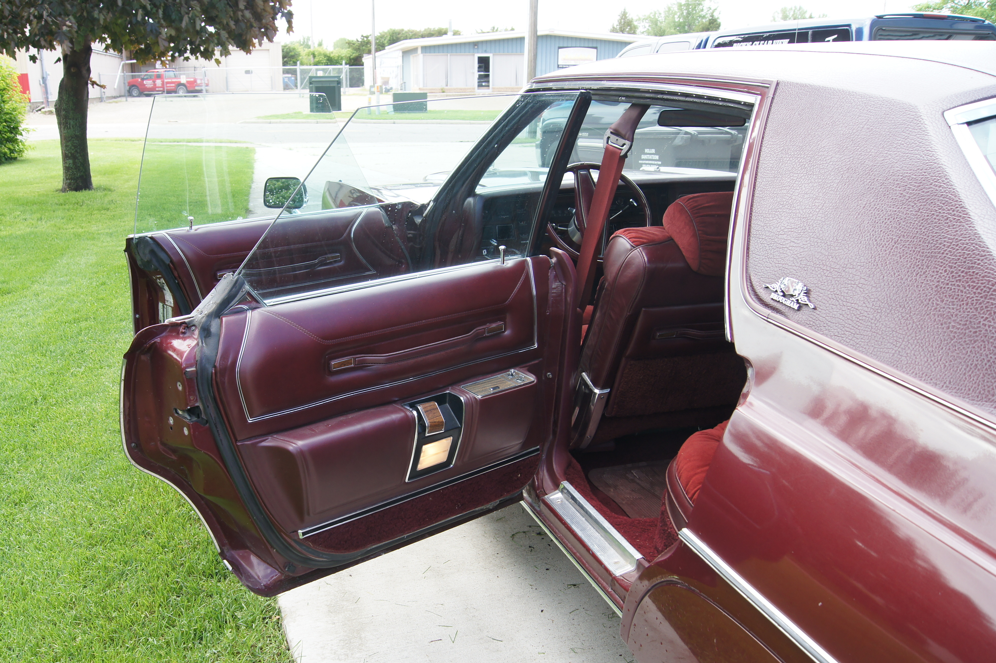 Four Door Hardtop Friend from the Willmar Car Club told me that his neighbor had this New Yorker for sale. I stopped by and found out it has 62,000 miles and belongs to the neighbor's elderly father-in-law, that has had it for the last 20 years. Stored inside the car was used for Sunday drives in nice weather. It has a 440-V8. I would be more interested, but I already have a 1978 New Yorker with 46,000 miles. I do like the dark red color better than my pale yellow though. 1978 New Yorker: Other car pictures